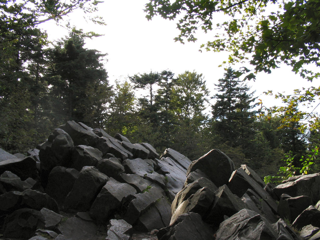 Łysica, 612 m (the highest peak of Swietokrzyskie Mountains, Poland) Photographer: vindicator Date: 16 September 2004 Camera: Canon PowerShot A75